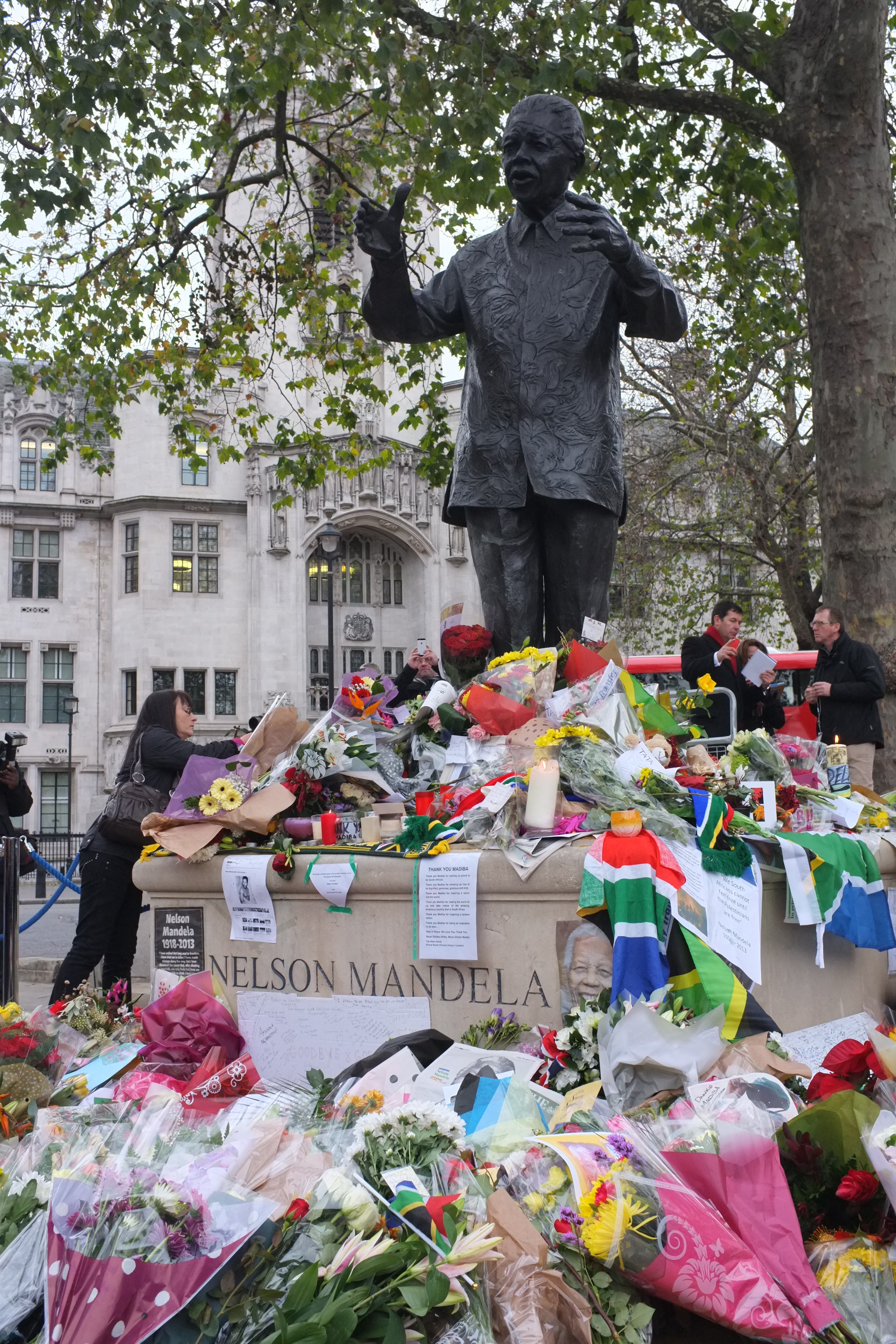 Nelson Mandela tributes in Parliament Square - London - DSCF0404